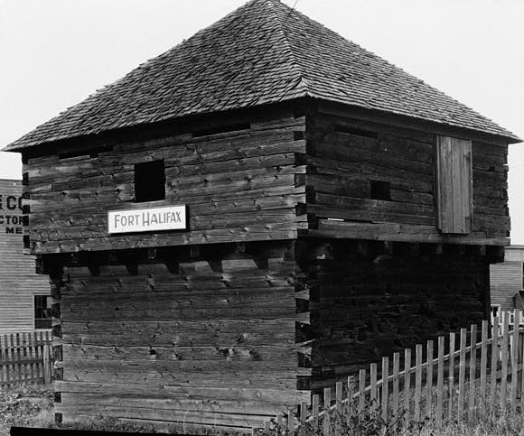 Fort Halifax, U.S. Route 201, Winslow (Kennebec County, Maine) (cropped)